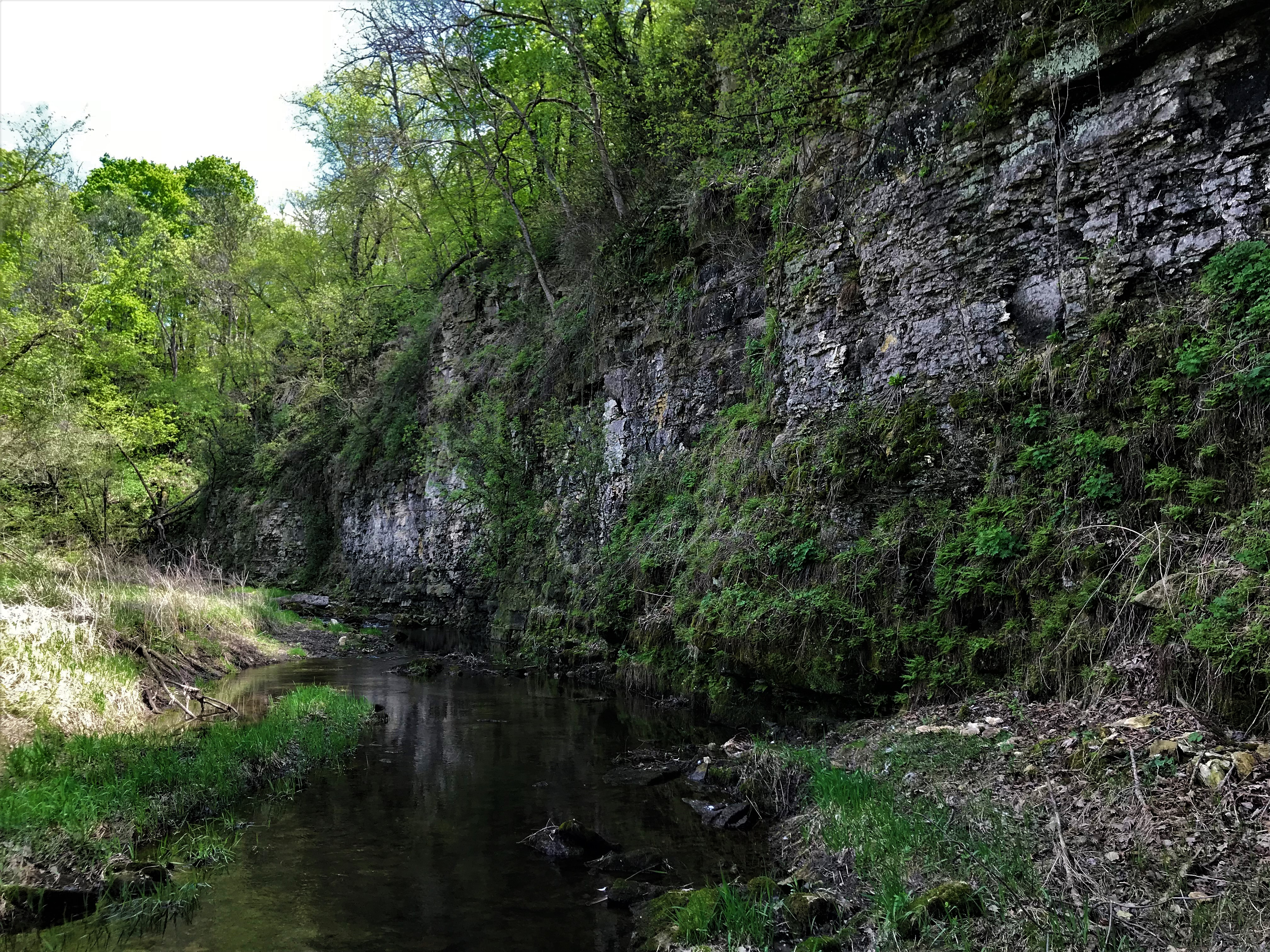 Algific Talus slopes along Howard Creek at Driftless Area National Wildlife Refuge. Photo by Brandon Jones/USFWS.